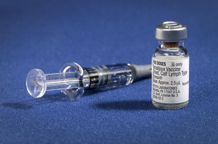 The smallpox vaccine diluent in a syringe along side a vial of Dryvax® dried smallpox vaccine. Vaccinia (smallpox) vaccine, derived from calf lymph, and currently licensed in the United States, is a lyophilized, live-virus preparation of infectious vaccinia virus. It does not contain smallpox (variola) virus.